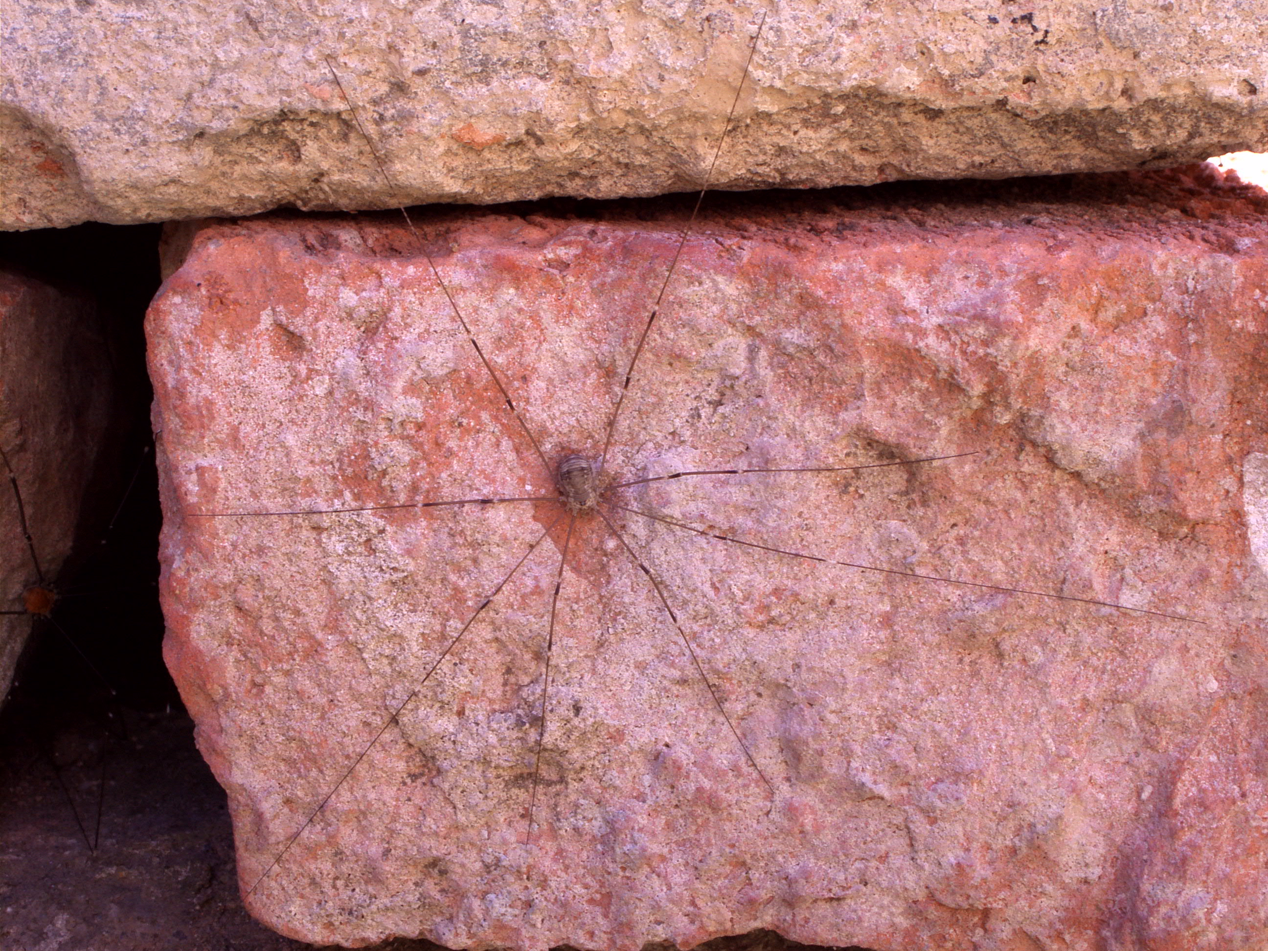 Harvestman, photo taken in Czech Republic.